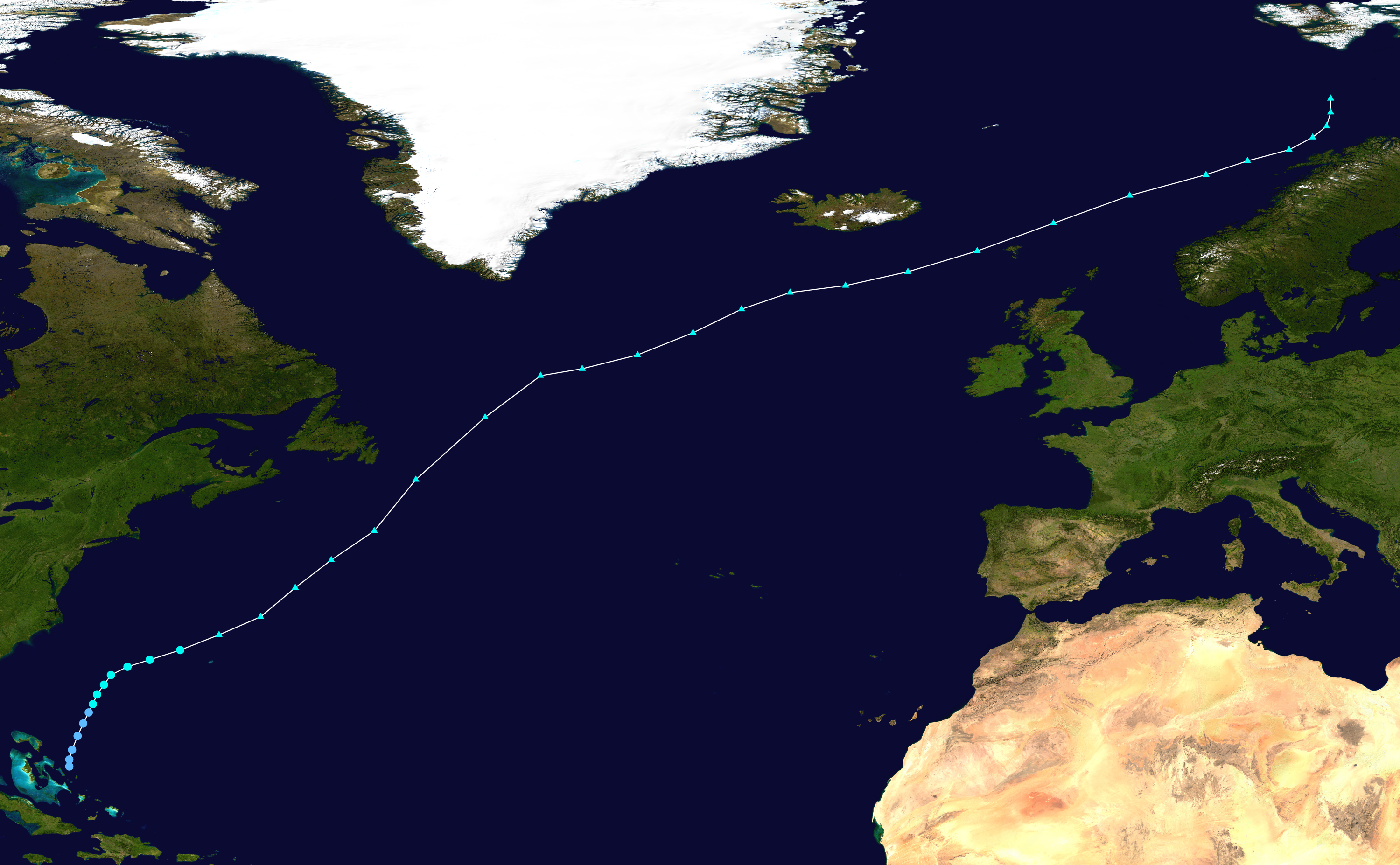 Tropical Storm Carla (1956) track. Uses the color scheme from the Saffir-Simpson Hurricane Scale.